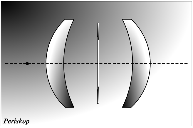 Periskop lens.